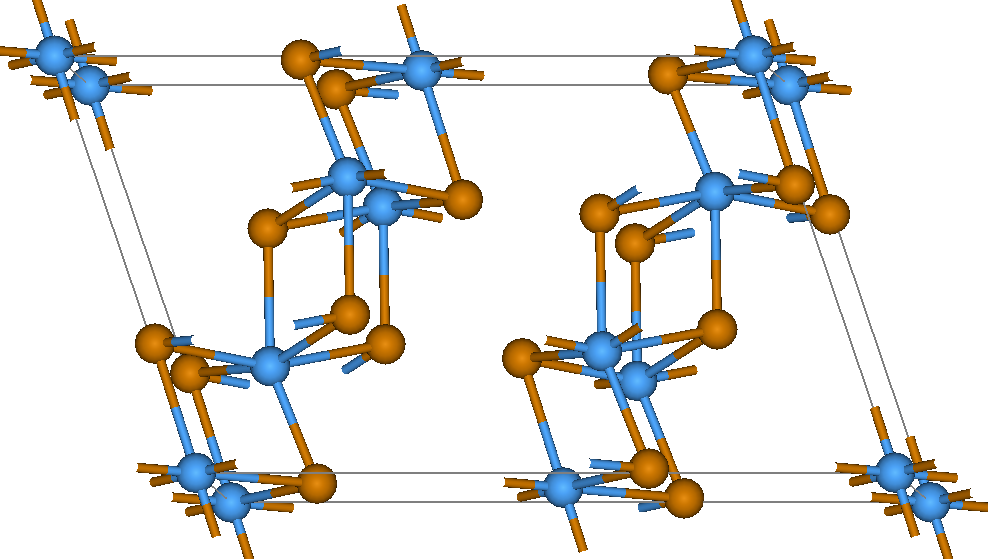 TaTe2 structure. Brown atoms are tellurium. Journal = CHEMISTRY OF MATERIALS; Year = 1989; Volume = 1; Page = 597–601; Title = Effect of Cation Substitution on the TaTe2 Distortion; Authors = Lee S., Nagasundaram N.